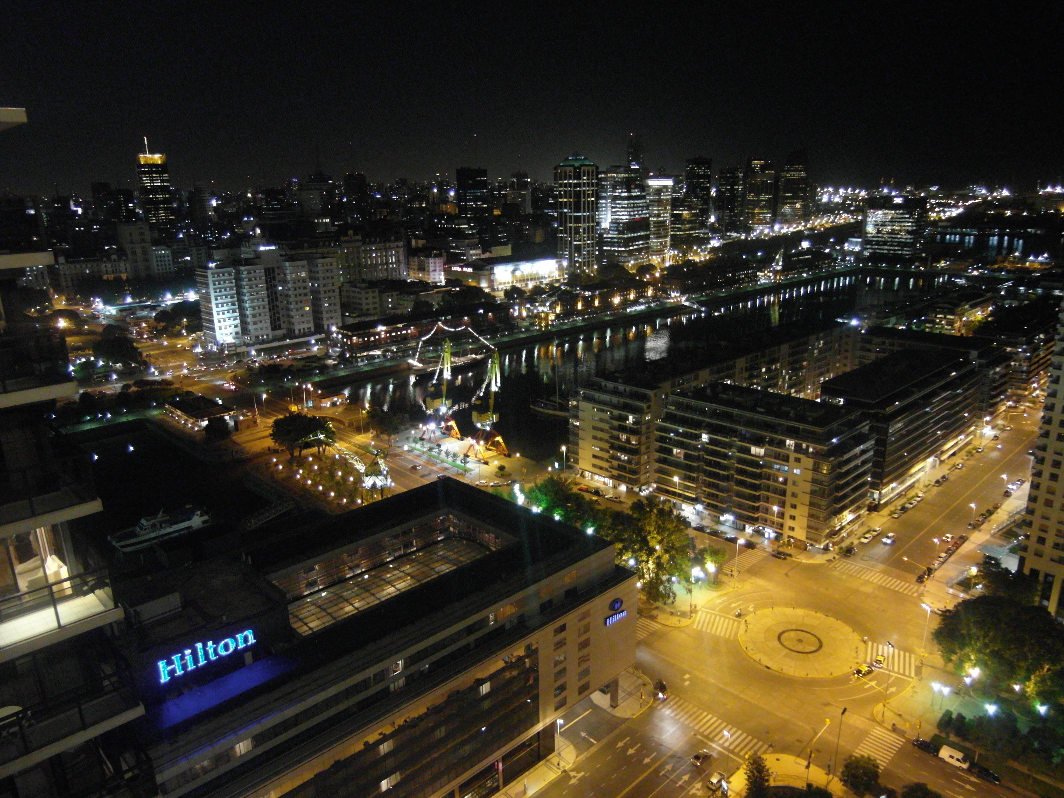 Night in Buenos Aires, Puerto Madero